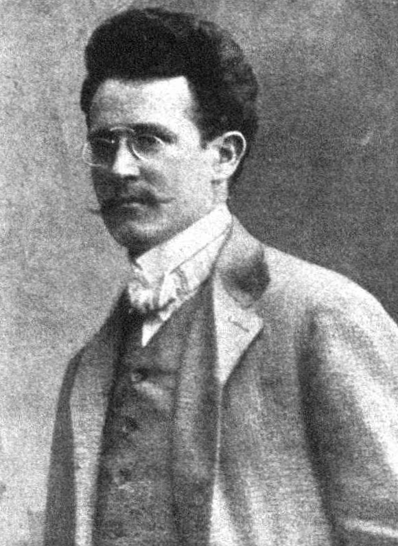 Hugo Schubert (1874–1913), Austrian portrait and genre painter, etcher and illustrator.